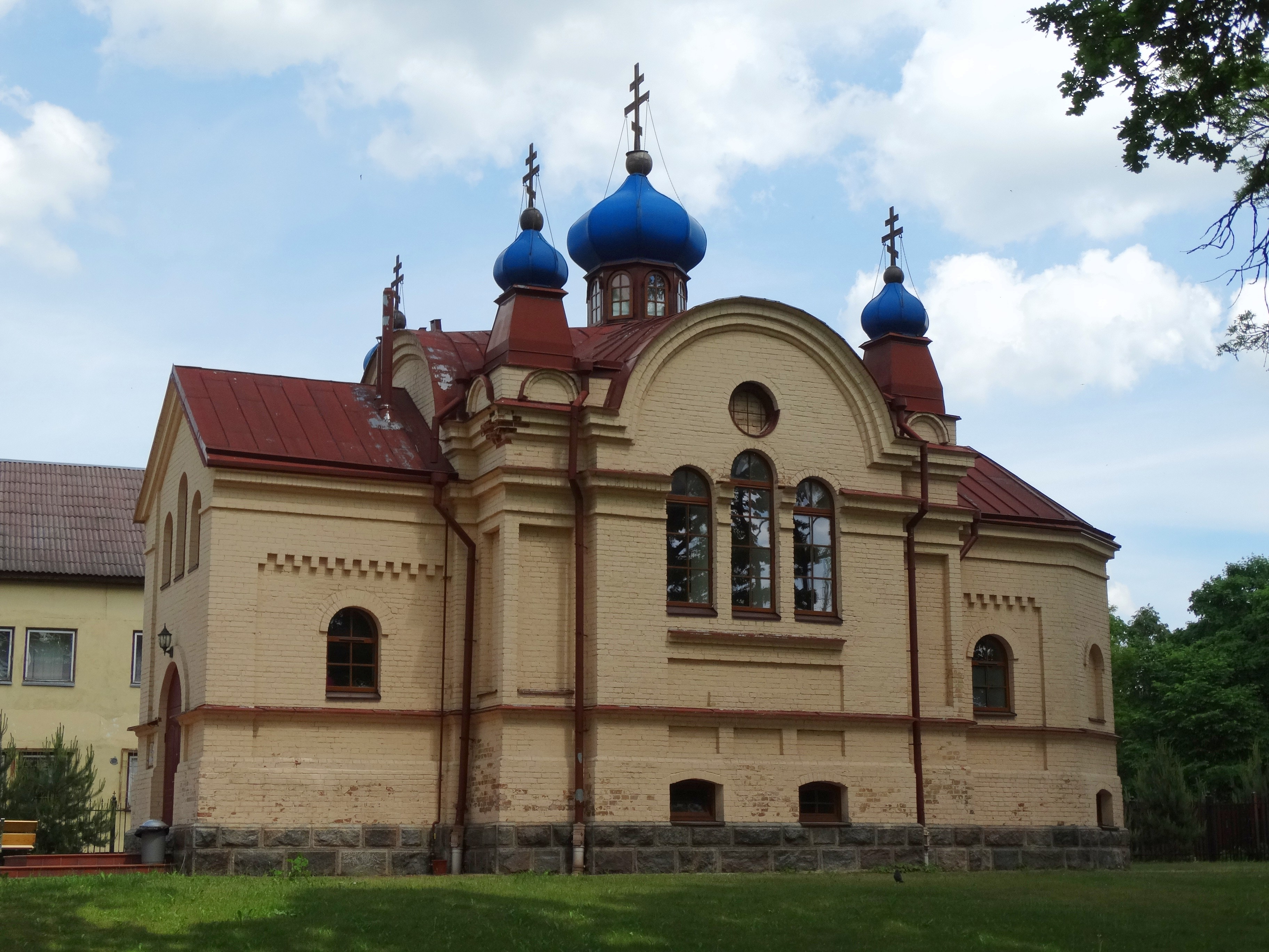 Orthodox church, Bukiškės, Vilnius District, Lithuania